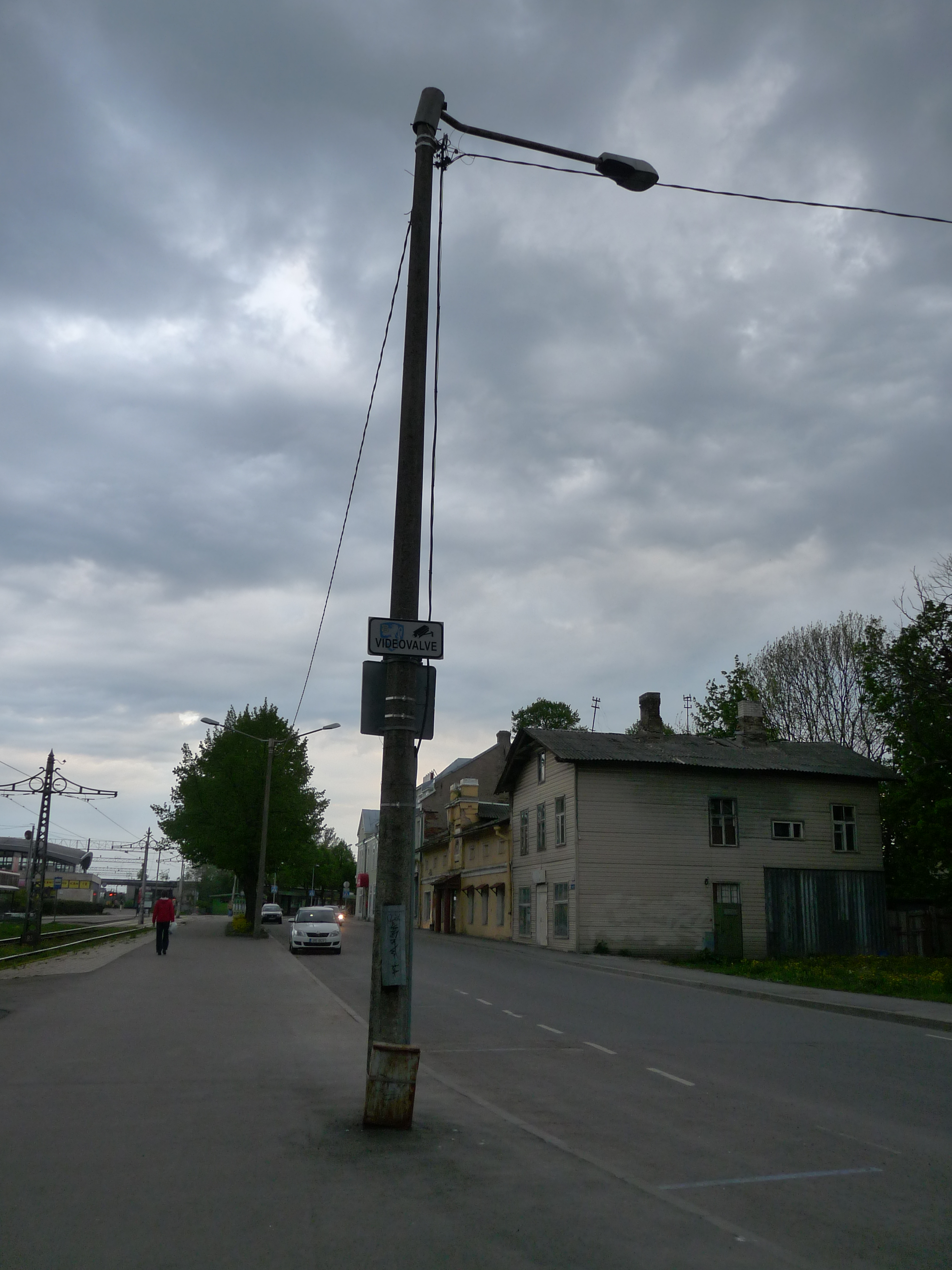 Begining of Kopli street in Tallinn, Estonia.